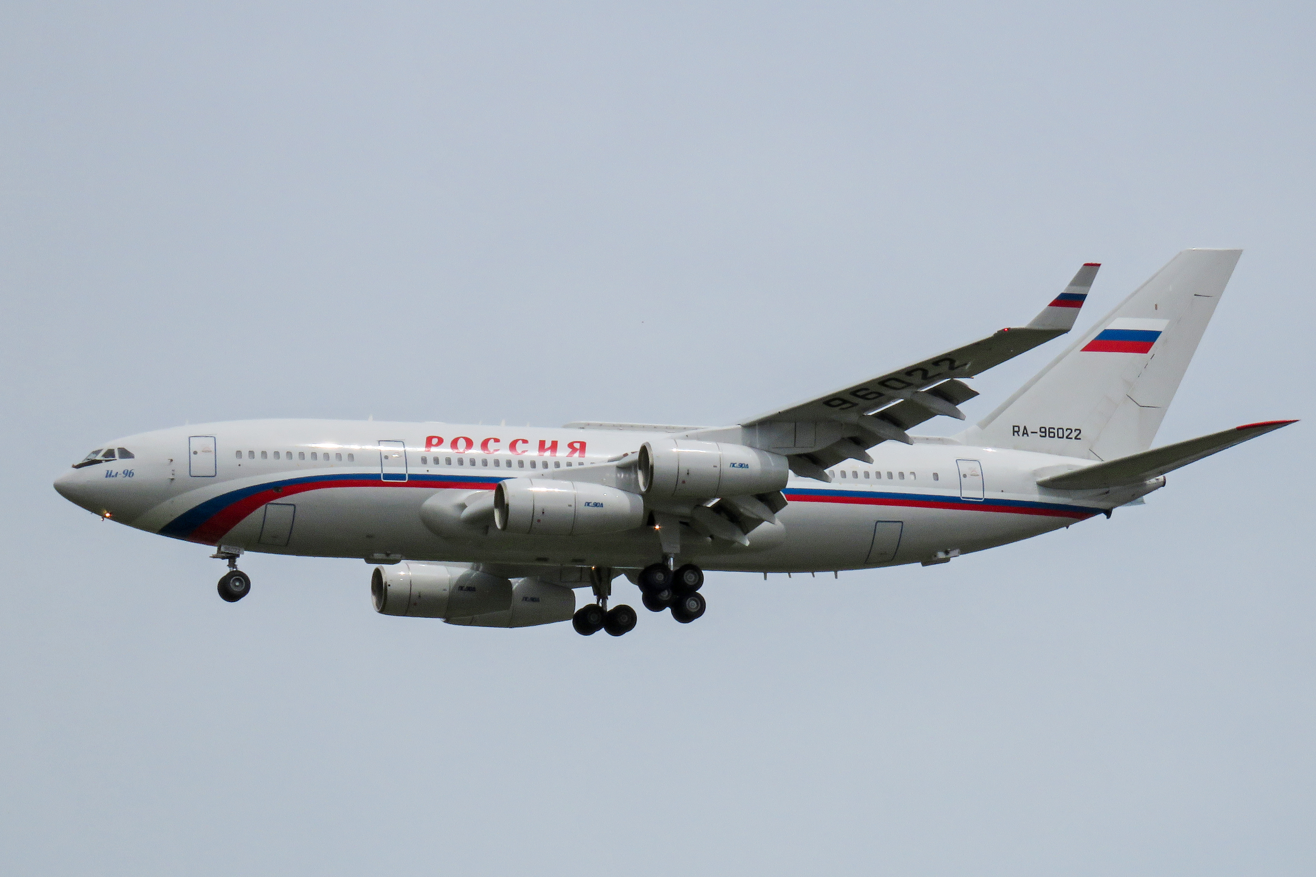 RSD137 from Moscow-Vnukovo. According to Kremlin, Vladimir Putin rode this 96 to Beijing for sure! Having received the Chinese Order of Friendship and a CRH380A ride from Beijingnan to Tianjin, Putin will attend the SCO Heads of State Council meeting in Qingdao on 9-10 June 2018. Pity that he didn't ride a CR400AF...